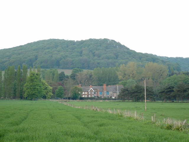 Brinsop Court. Looking NE across fields toward the house